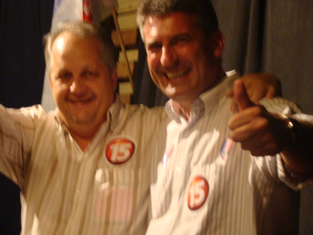 Mauro Mariani and Nilson Bylaardt